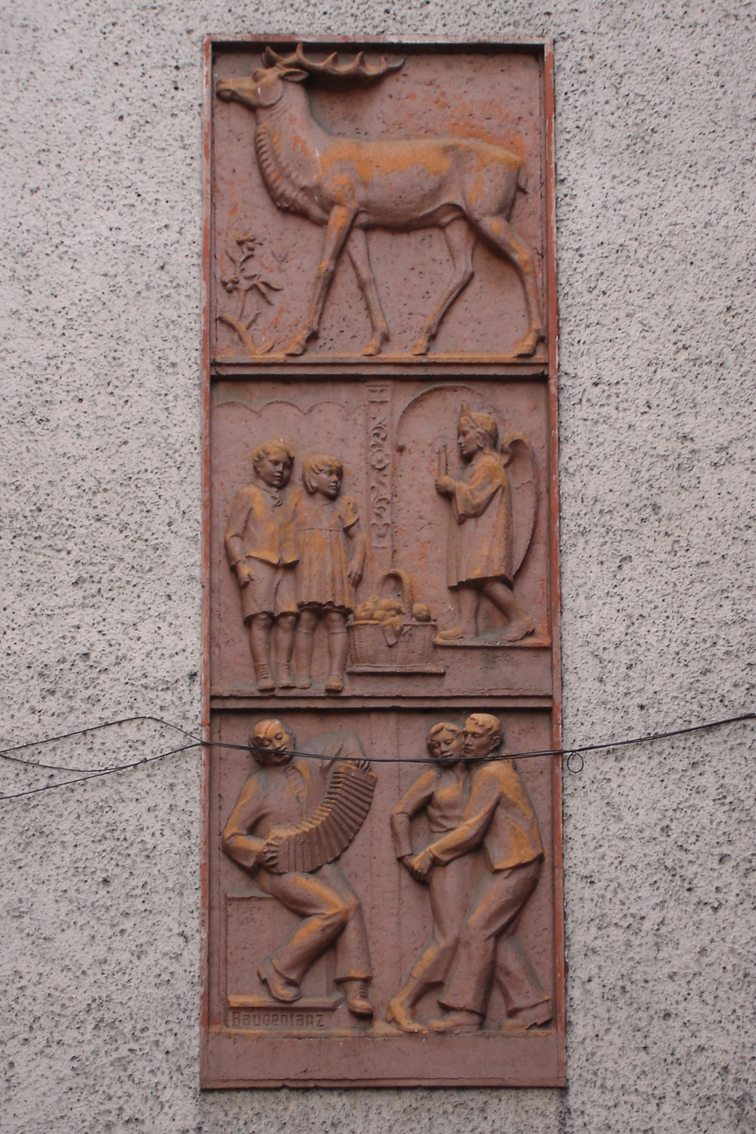 The relief by Walter Tuckermann, on the wall of the house at Konopnickiej 11 st. in Bytom, Poland, probably 1930s.